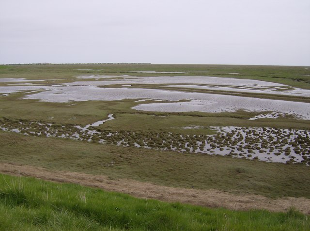 Frampton Marsh Looking east from the sea bank one sees extensive salt marshes, part of the Frampton Marsh Nature Reserve. One of the most important estuaries for birds in Britain, this marsh covers 900 acres. Next stop The Netherlands or Denmark.